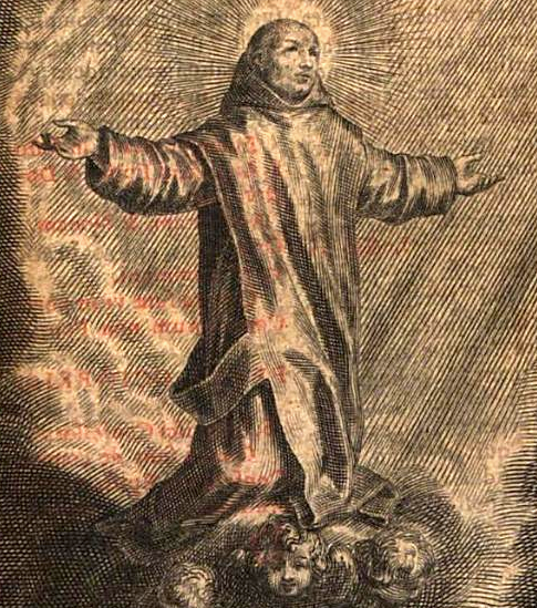 Bruno was the founder of the Carthusian Order. He is portrayed in his habit, angels at his feet, hands held high in prayer.